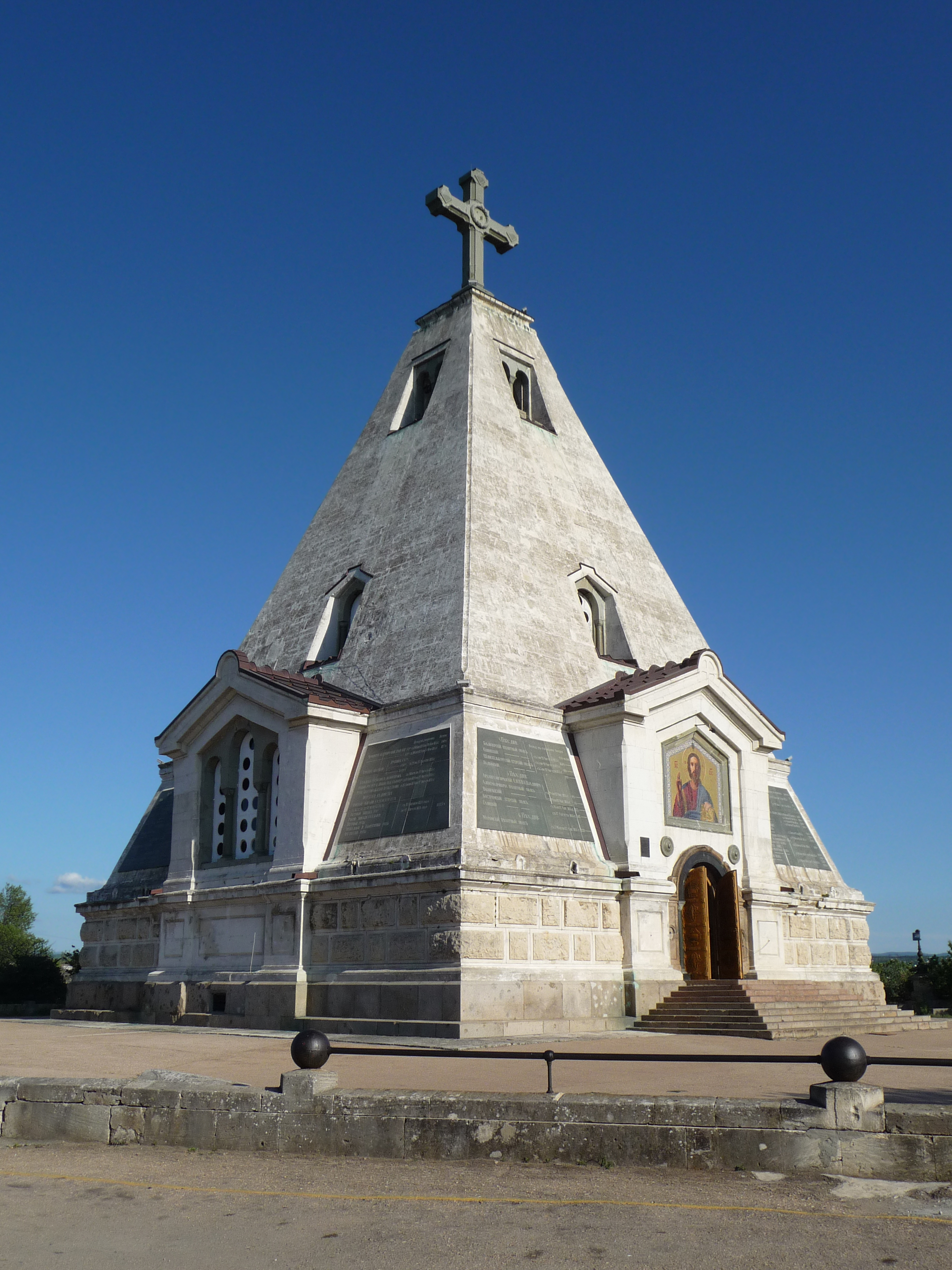 Saint Nicholas church at the Brotherhood cemetery 1854-1855. Sevastopol. On stone plates list of Russian regiments and number of the fallen soldiers are written. This church has been built in 1870. The architect is A. A. Avdeyev.